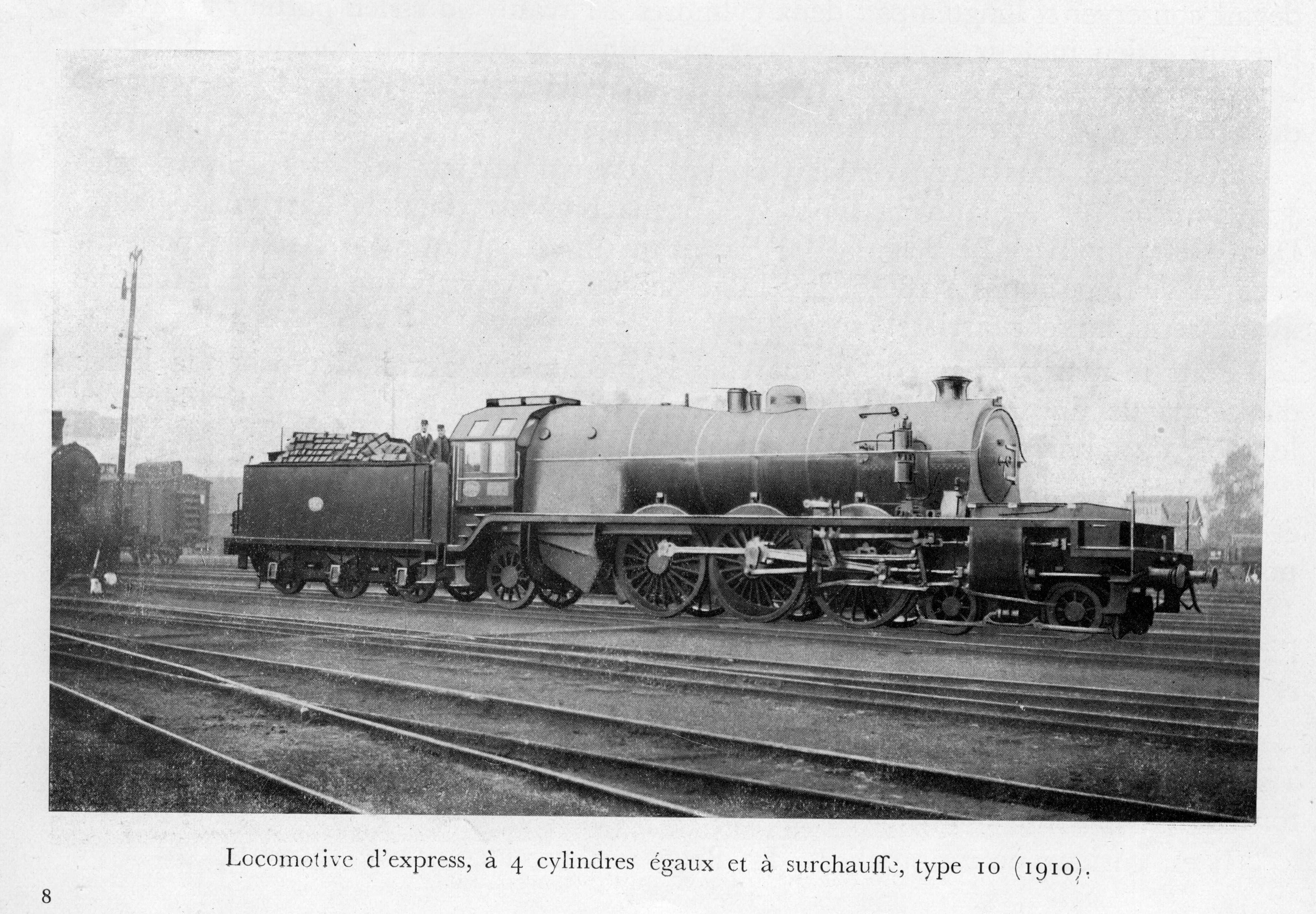 Type 10 steamloc in Belgium. Build in 1910